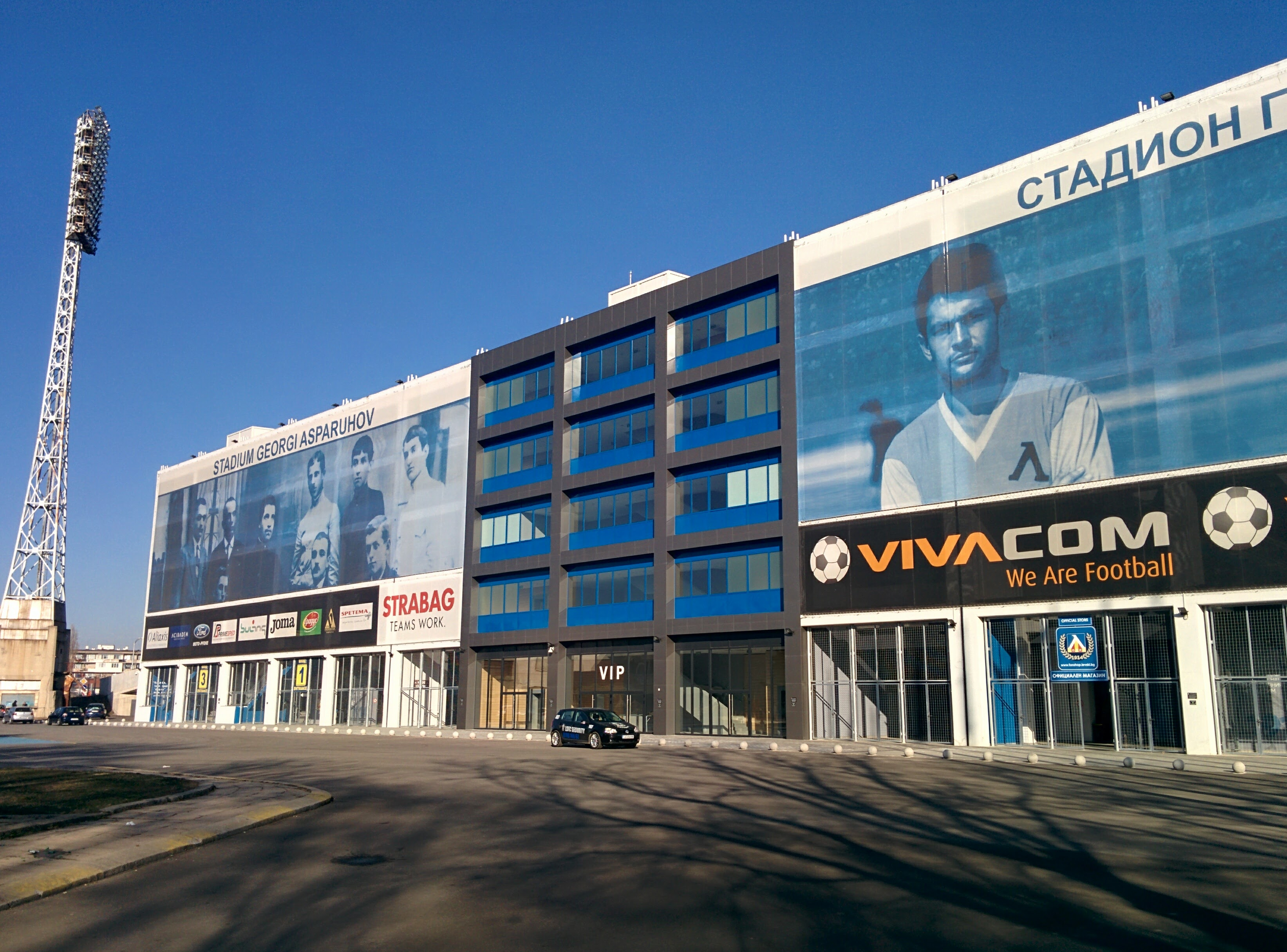 PFC Levski Sofia's Georgi Aspauhov Stadium in Sofia, Bulgaria